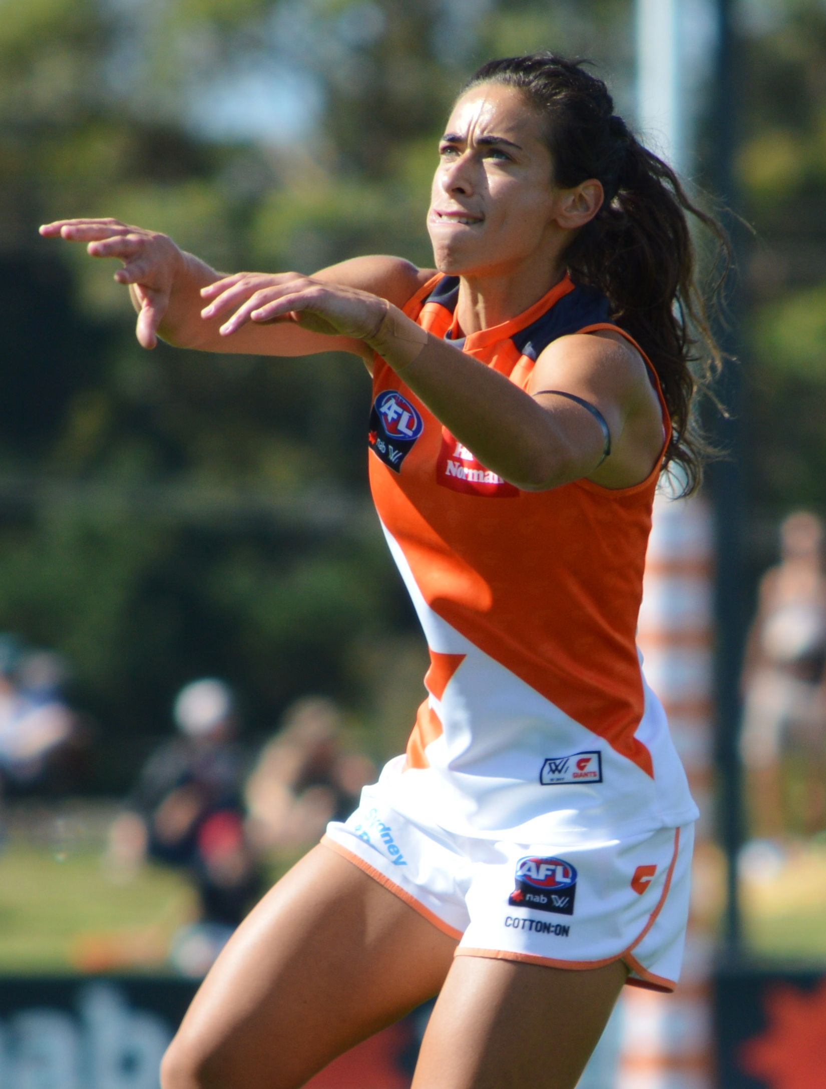 Amanda Farrugia during the round 1, 2018 AFL Women's match between Melbourne and Greater Western Sydney.